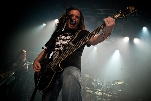 Jeff Walker of Carcass, live at Hole In The Sky, Bergen Metal Fest 2007